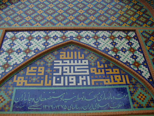 This is the last remaining mosque in Armenia. The Islamic Republic of Iran swooped in to save the mosque and perpetually seems to be in the process of restoring it. Dunno as they won't let anyone in. I think that they offered a pretty sweet deal to Armenia in exchange for the mosque. It's surrounded by Soviet area apartment blocks in downtown Yerevan. 6/150